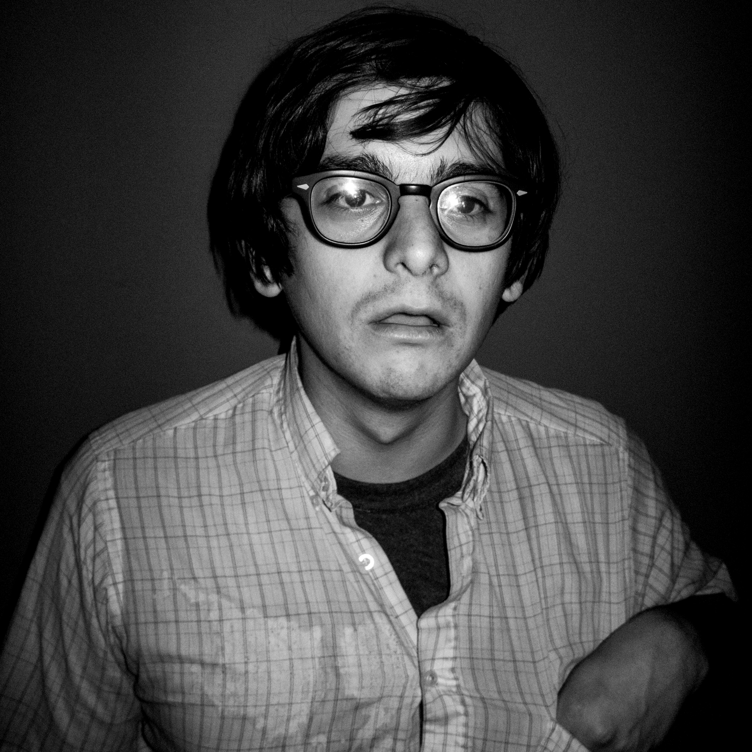 SAD PEOPLE TALKING / Photography by Kyle Mizono / Weekly Comedy Show in Los Angeles